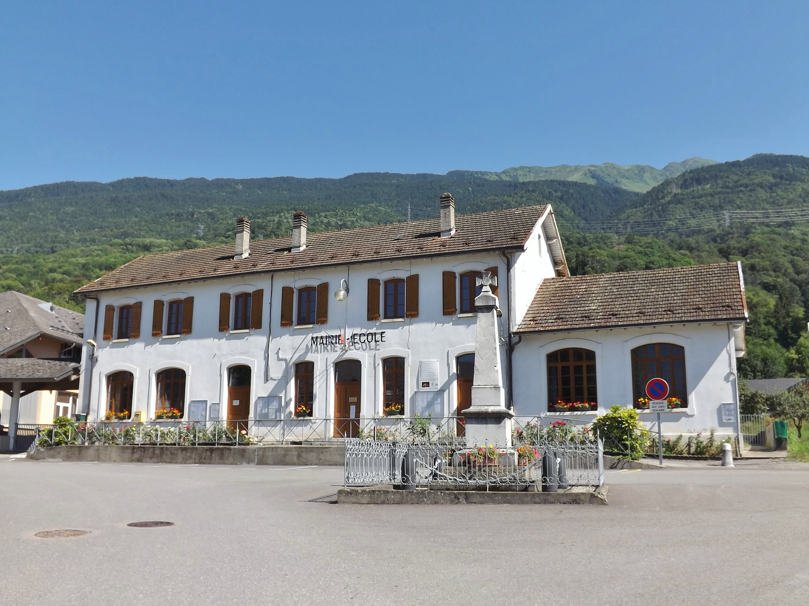 Sight of the French commune of Notre-Dame-des-Millères city hall and school, in Savoie.